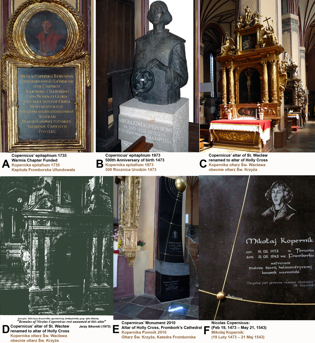 A: Copernicus’ epitaphium 1735, Warmia Chapter Funded. B: Copernicus’ epitaphium 1973, 500th Anniversary of birth 1473. C: Copernicus’ altar of St. Wacław, renamed to altar of Holly Cross. D: "Remains of Nicolas Copernicus rest unnamed at this altar" Jerzy Sikorski (1973, p.193). Copernicus’ altar of St. Wacław, renamed to altar of Holly Cross. E: Copernicus’ Monument 2010, Altar of the Holly Cross, Frombork’s Cathedral. F: Nicolas Copernicus: (b. Feb 19, 1473 – d. May 21, 1543).